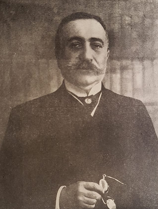 Romanian politician Constantin C. Arion, in 1918Română: Politicianul conservator Constantin C. Arion, în 1918